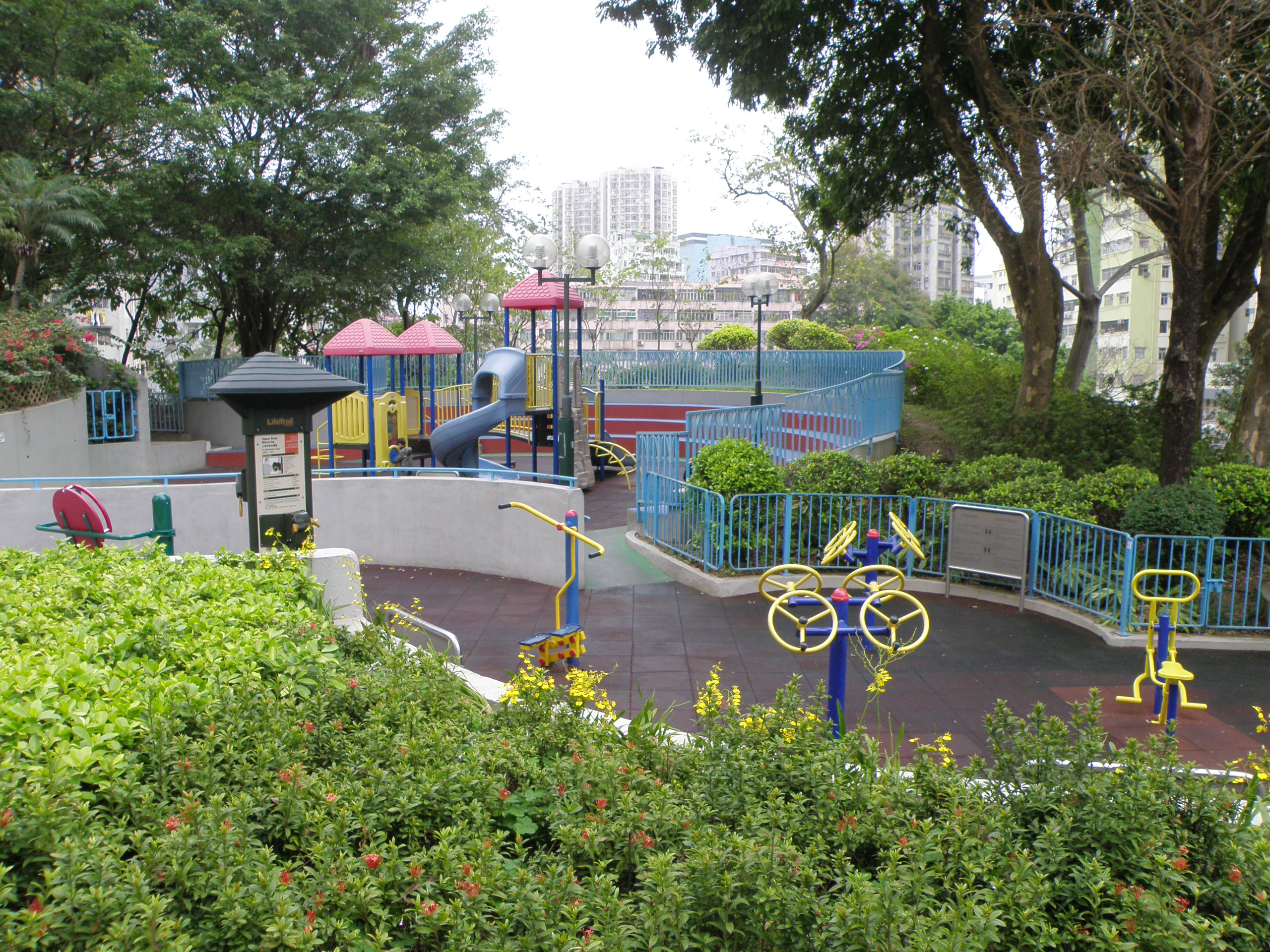 Ko Shan Road Park in Ma Tau Wai, Hong Kong.